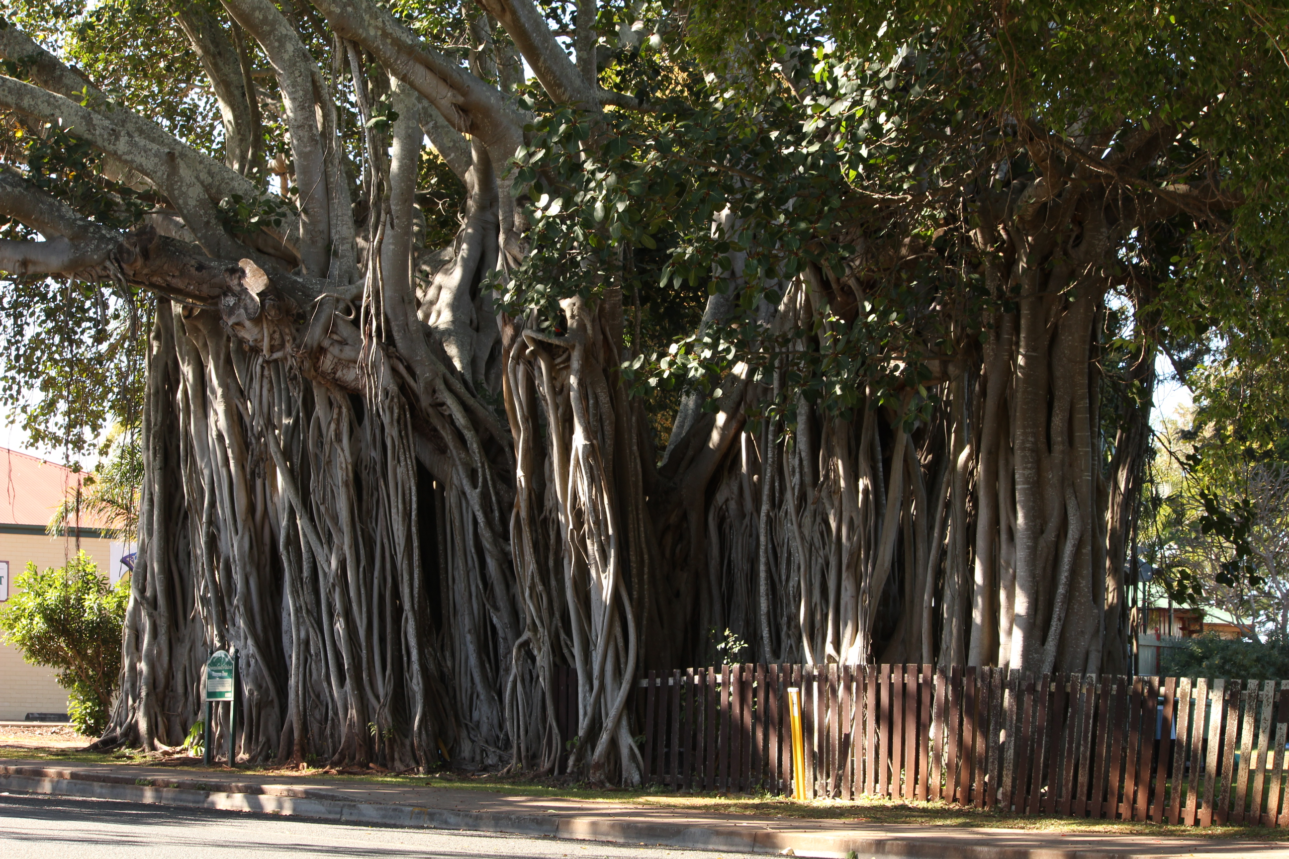 A Banyan tree claimed to be the oldest in Queensland, located in Cleveland beside the Grand View Hotel.